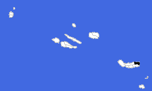 Map of the Azores highlighting Nordeste